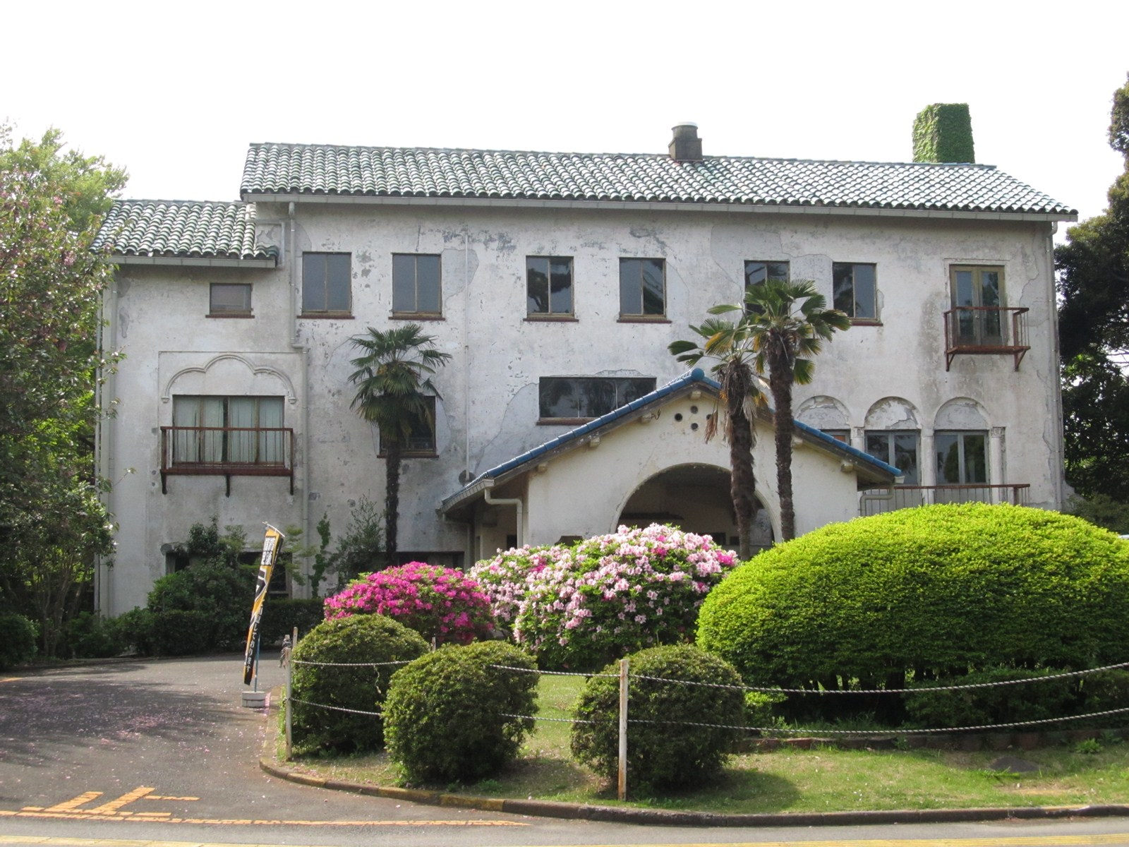 Old Clubhouse of the Fujisawa Country Club in Fujisawa City, Kanagawa Prefecture, Japan was designed by Antonin Raymond and built in 1932.